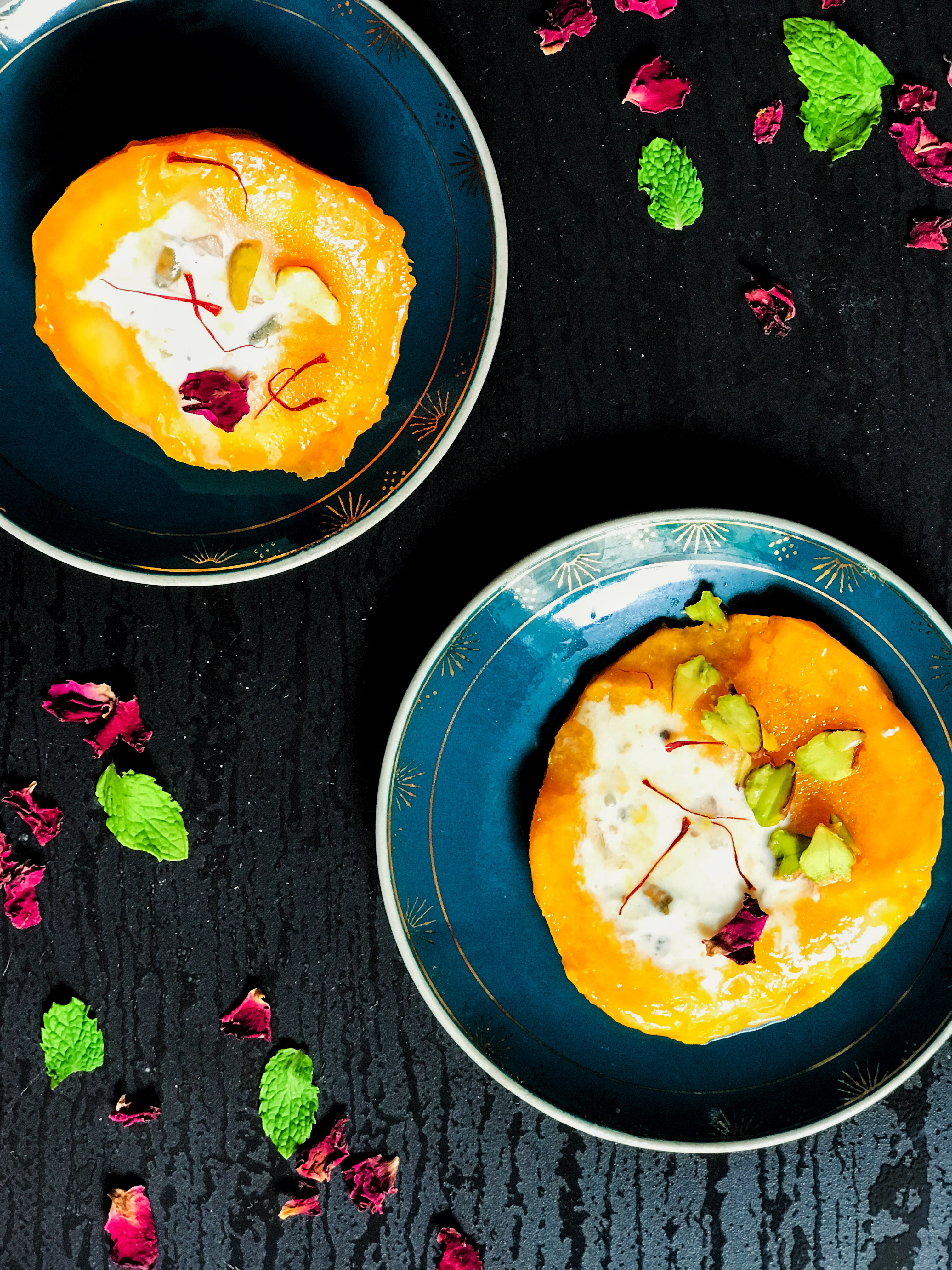 Kulfi